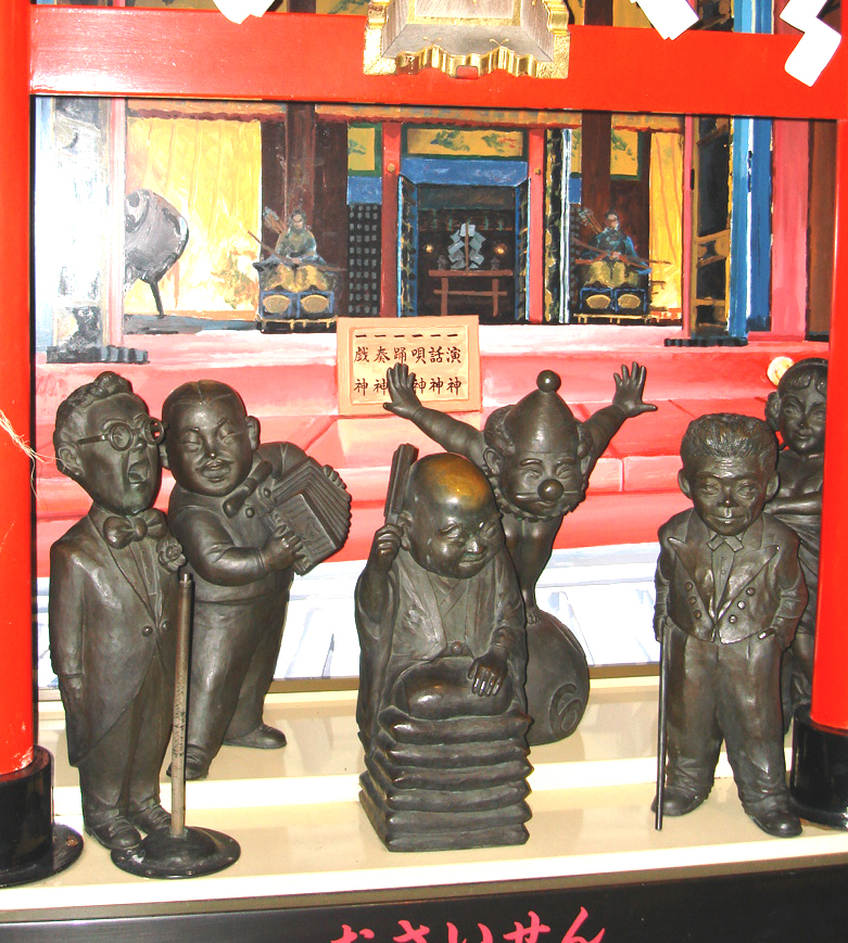 I took this foto at Asakusa,Tokyo.